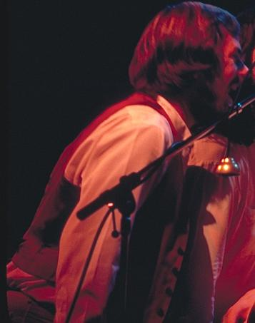 Dougie thomson, formerly of British rock group Supertramp. Photo uploaded to English Wikipedia by User:Rs3 with comment: : Photo taken during the "Breakfast In Europe" Tour, Olympia Halle, Munich, 1980.